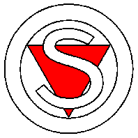 Sparta Nijmegen logo